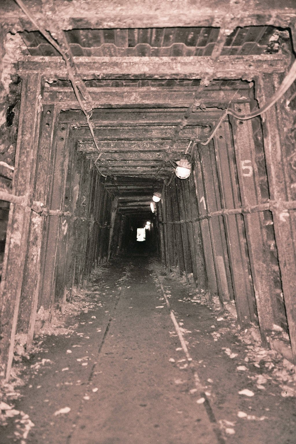 A haulway in a coal mine (Nachtigallstollen in Germany)